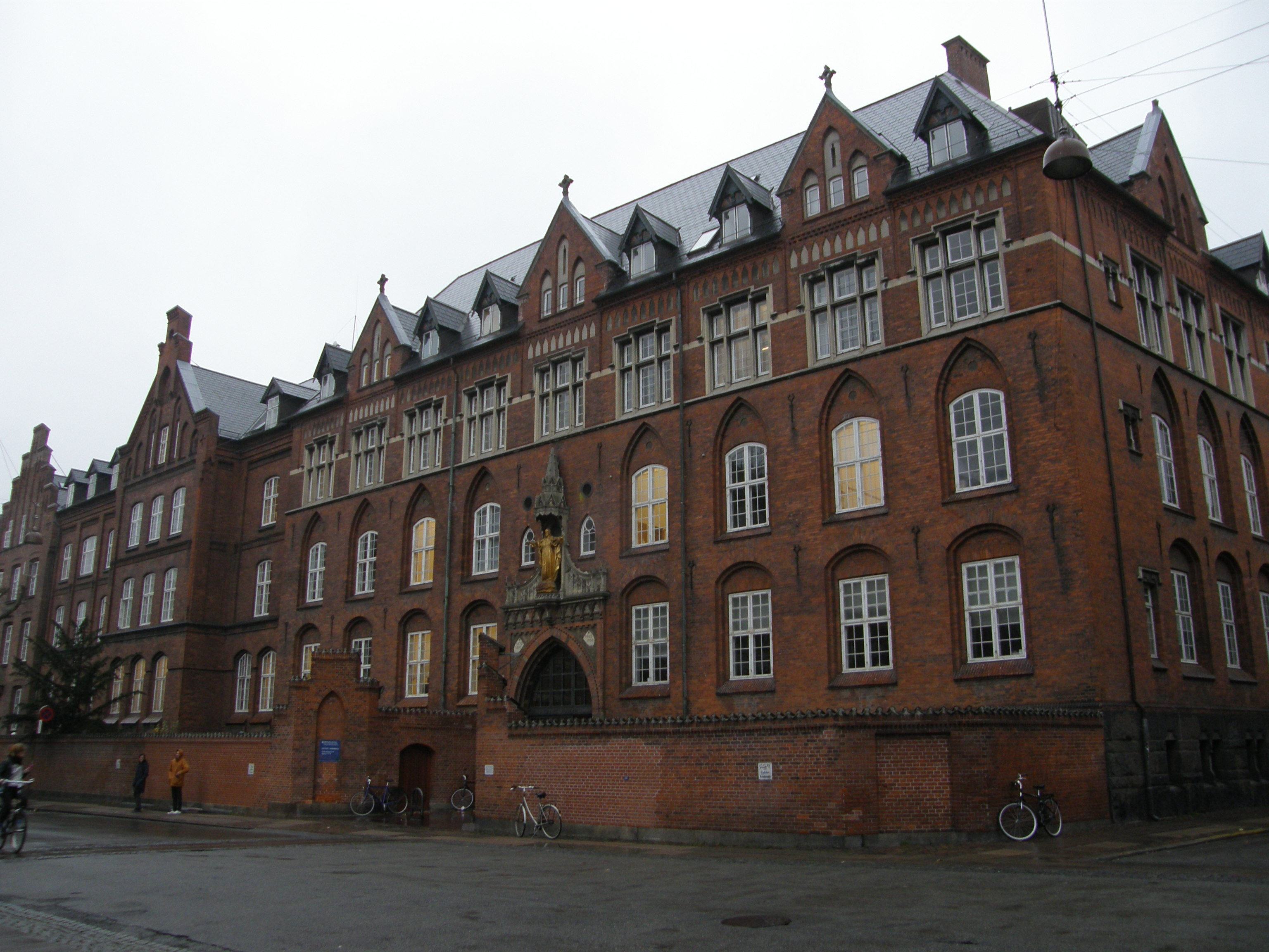 Sankt Josephs Hospital in Nørrebro, Copenhagen, Denmark